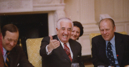 The photo contact sheet, identified as A3723 by the White House Photographic Office (WHPO), is housed at the Gerald R. Ford Presidential Library, a branch of the National Archives and Records Administration (NARA). This file is a 200 dpi photo contact sheet having images from roll of film A3723 of the August 9, 1974 - January 20, 1977 Gerald R. Ford White House Photographic Office Series A0001-A9999 and B0001-B2886 photographs. The date on the photo contact sheet is the date the roll of film was processed, not necessarily the date the photographs were taken. See table below for additional details.